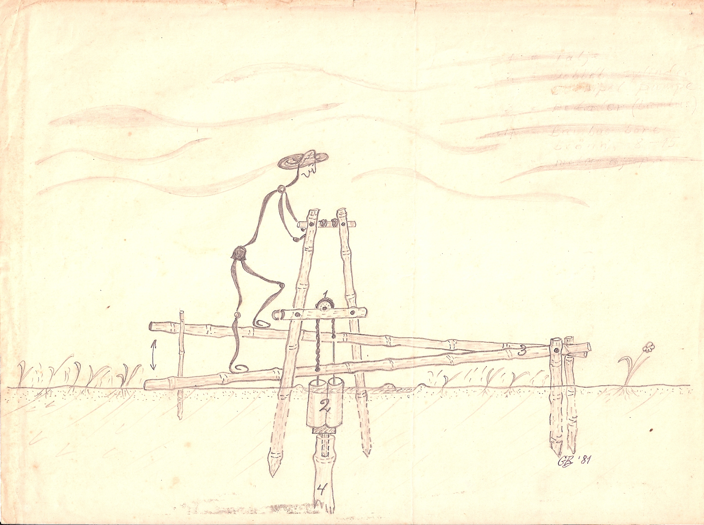 Drawing of treadle pump by Gunnar Barnes